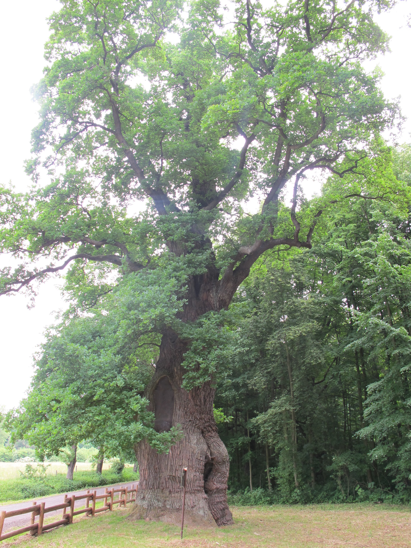 Oak by Petrohrad, Louny District